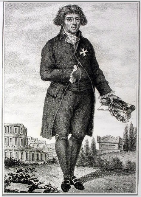 Alessandro Verri Engraving on copper plate in pointille, from "Series of lives and portraits of Famous Characters of recent times", Milan 1815